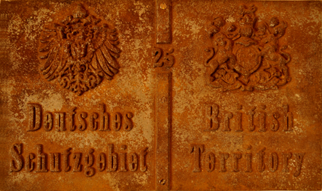 former border sign: German Protectorate - British territory